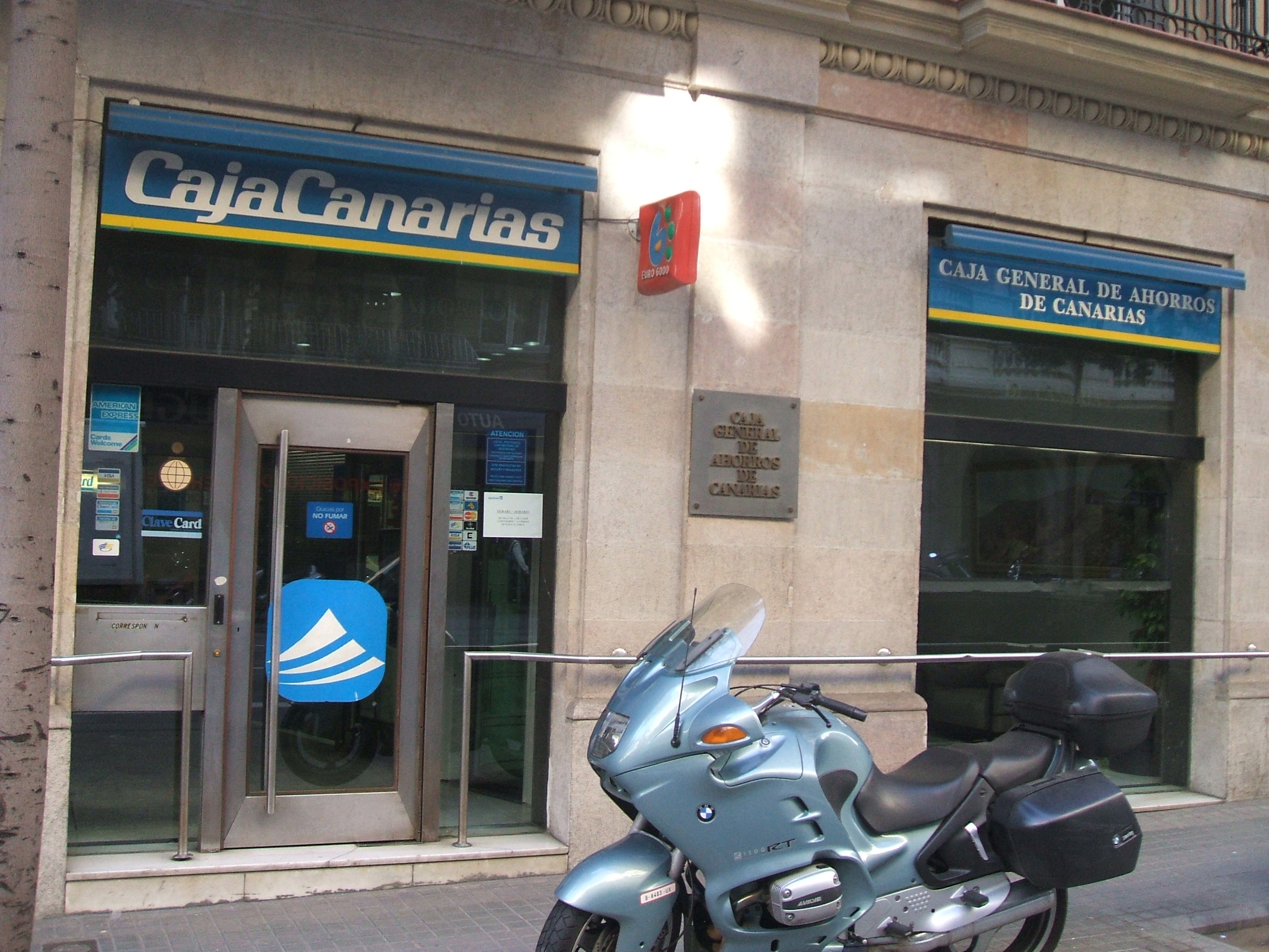 Caja Canarias branch in Barcelona; see also Savings bank (Spain)